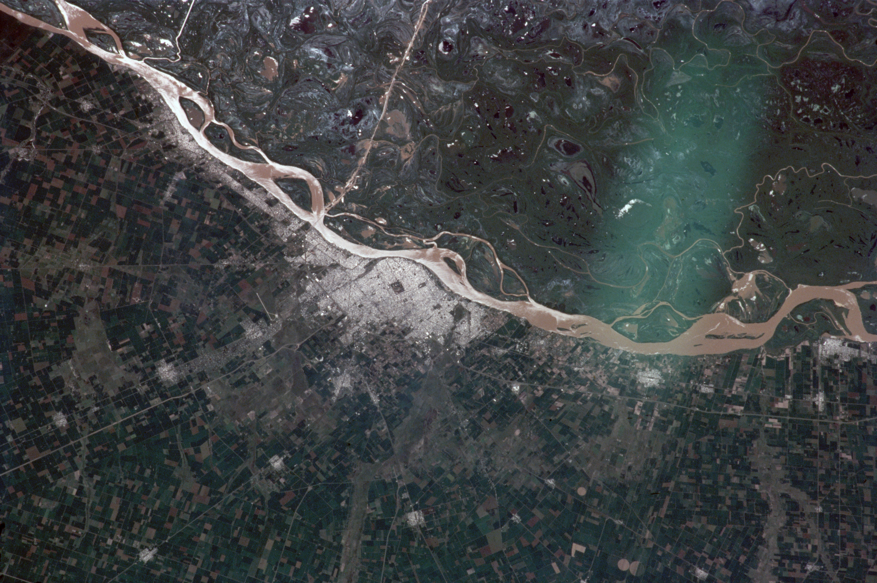 The Paraná River delta, centered around Rosario, Argentina.